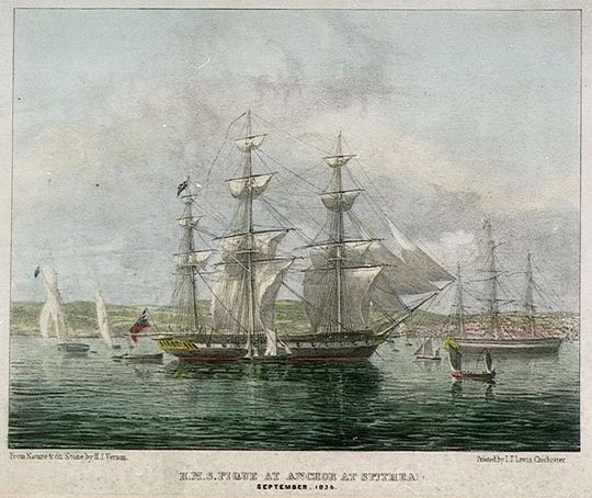 HMS Pique (1834) off Spithead 1836